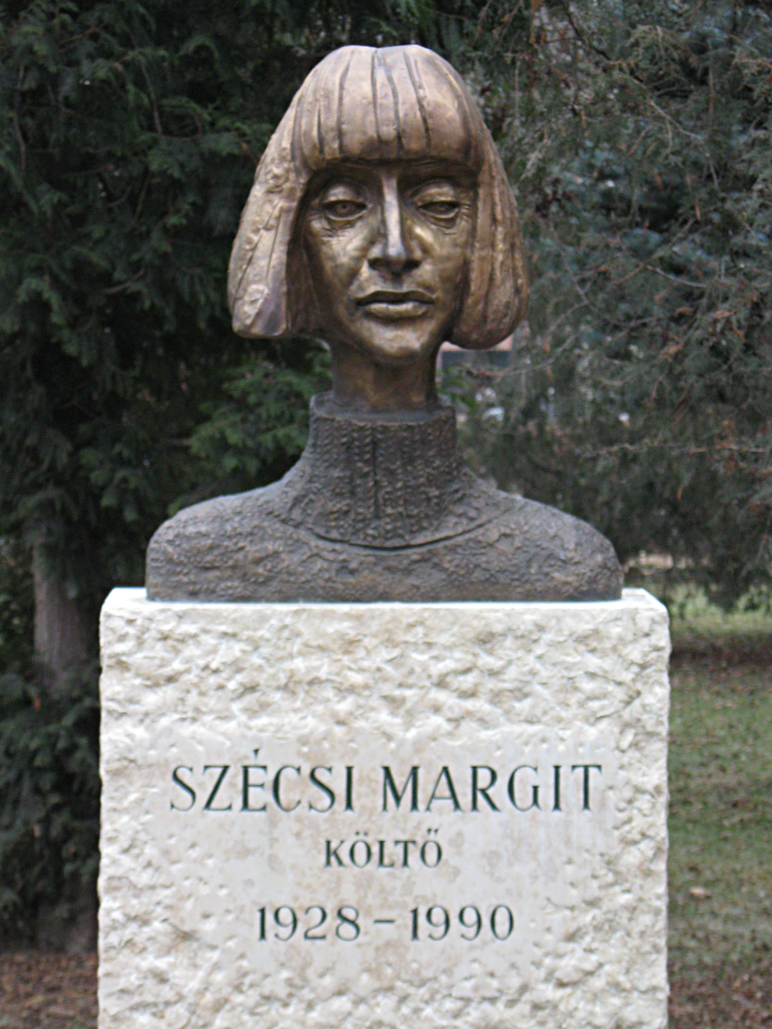 Bust of Margit Szécsi, sculptor: Pál Kő (2003) - Budapest, 18. distr., Kossuth square